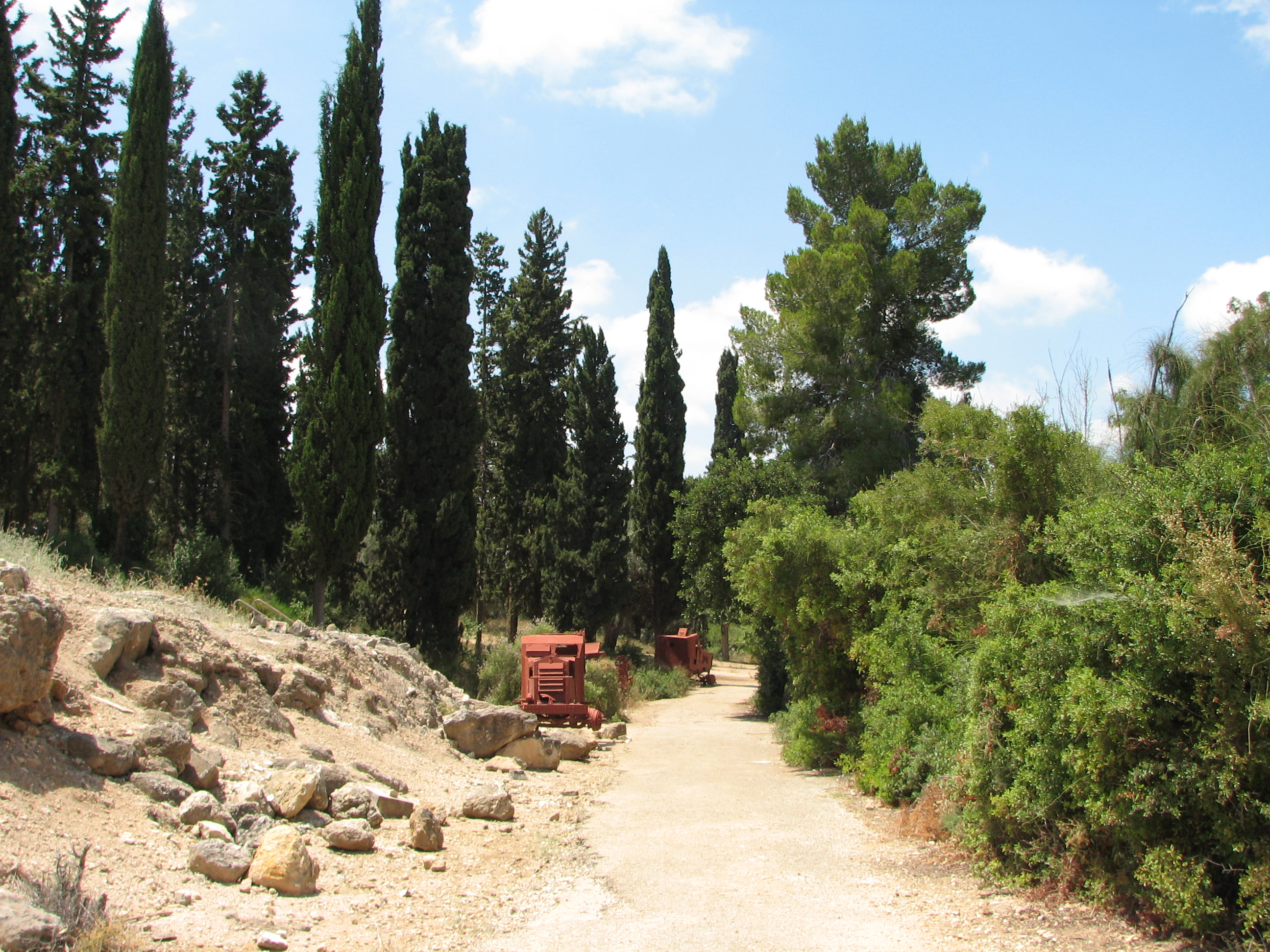 Yechiam Convoy Memorial/ The Yehiam convoy was a Haganah convoy was sent from Haifa during the 1947–1948 Civil War in Mandatory Palestine to reinforce and re-supply the Yehiam kibbutz which had been holding out against constant Arab attacks. On March 27, 1948, the convoy was attacked and destroyed by an Arab ambush. אנדרטה לזכר שיירת יחיעם. שיירת יחיעם הייתה שיירת אספקה של חטיבת כרמלי במלחמת העצמאות שהותקפה על ידי כנופיות וכפריים ערבים.